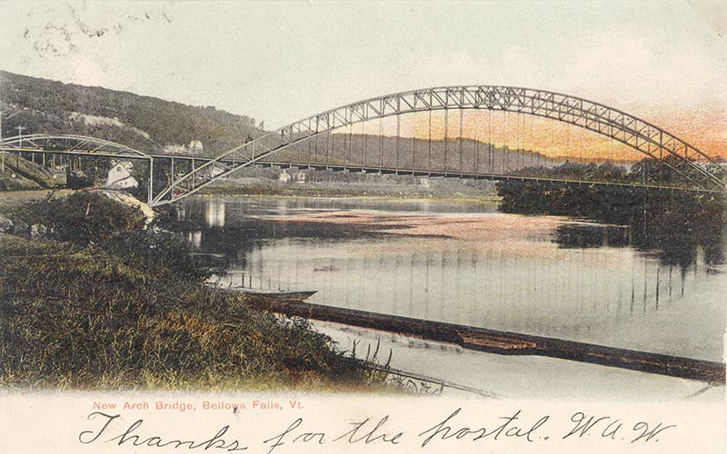 Postcard of the New Arch Bridge, Bellows Falls, Vermont